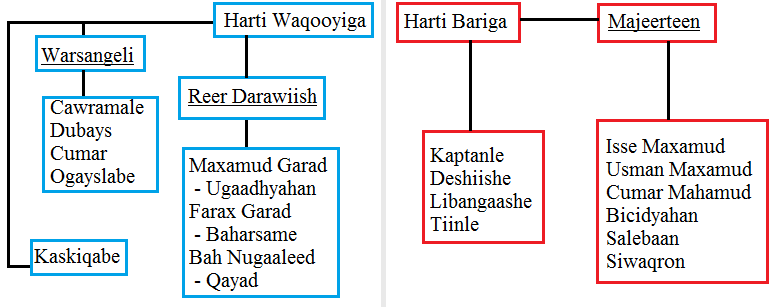 Harti darod